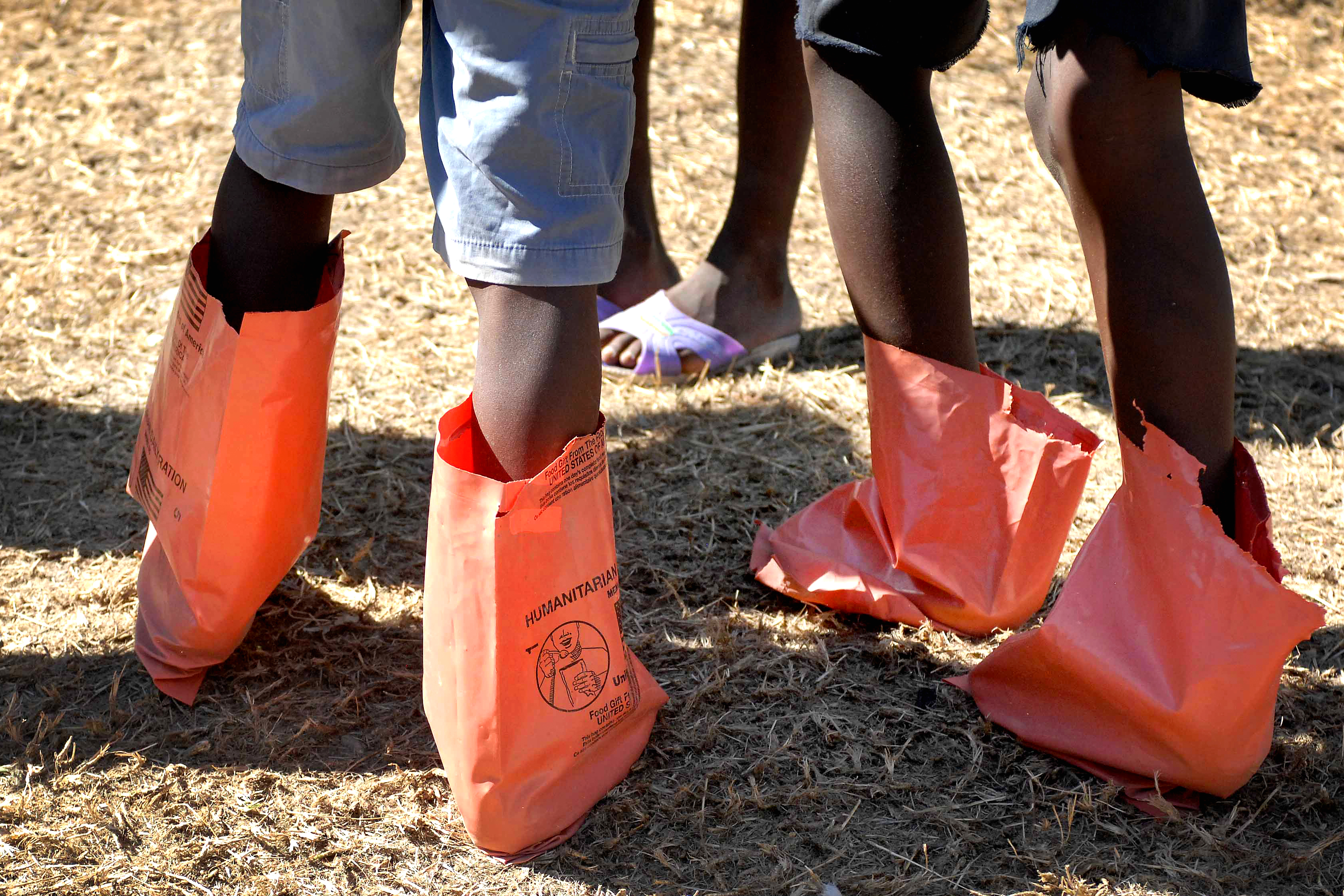 PORT-AU-PRINCE , Haiti (Jan. 21, 2010) Children use plastic bags from humanitarian meals as boots at an earthquake survivor camp in Port-au-Prince, Haiti. Some have estimated there are as many as 10,000 families living in the camp near a relief distribution point set up by the 1st Squadron, 73rd Cavalry Regiment of the 82nd Airborne Division. (Department of Defense photo by Fred W. Baker III/Released)